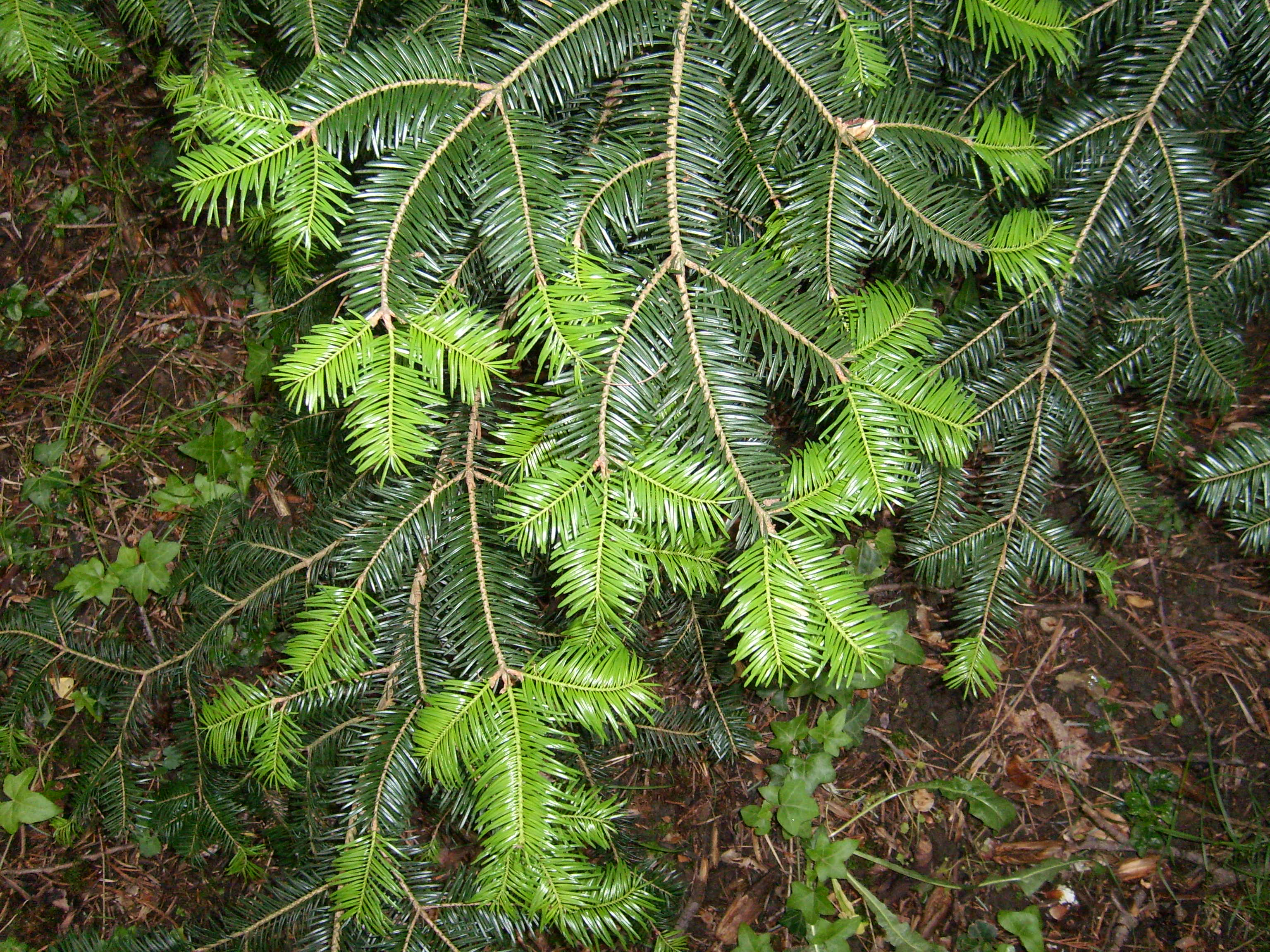 Foliage of Abies holopyhlla